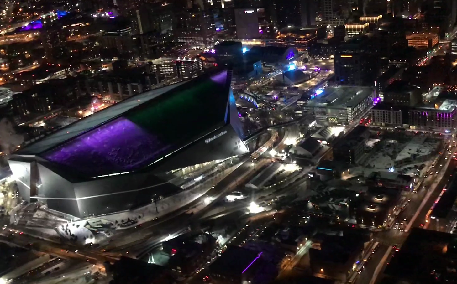 ICE at Super Bowl 52